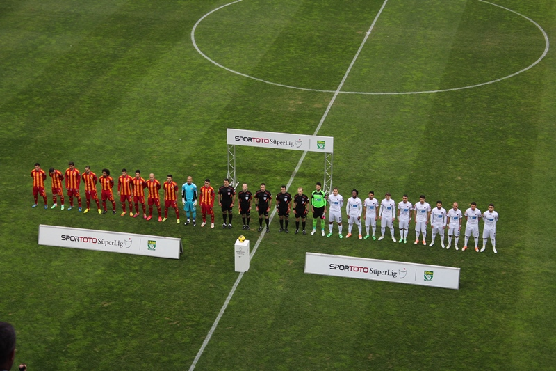 Turkish Super League match: Kayserispor 1-0 Gençlerbirliği